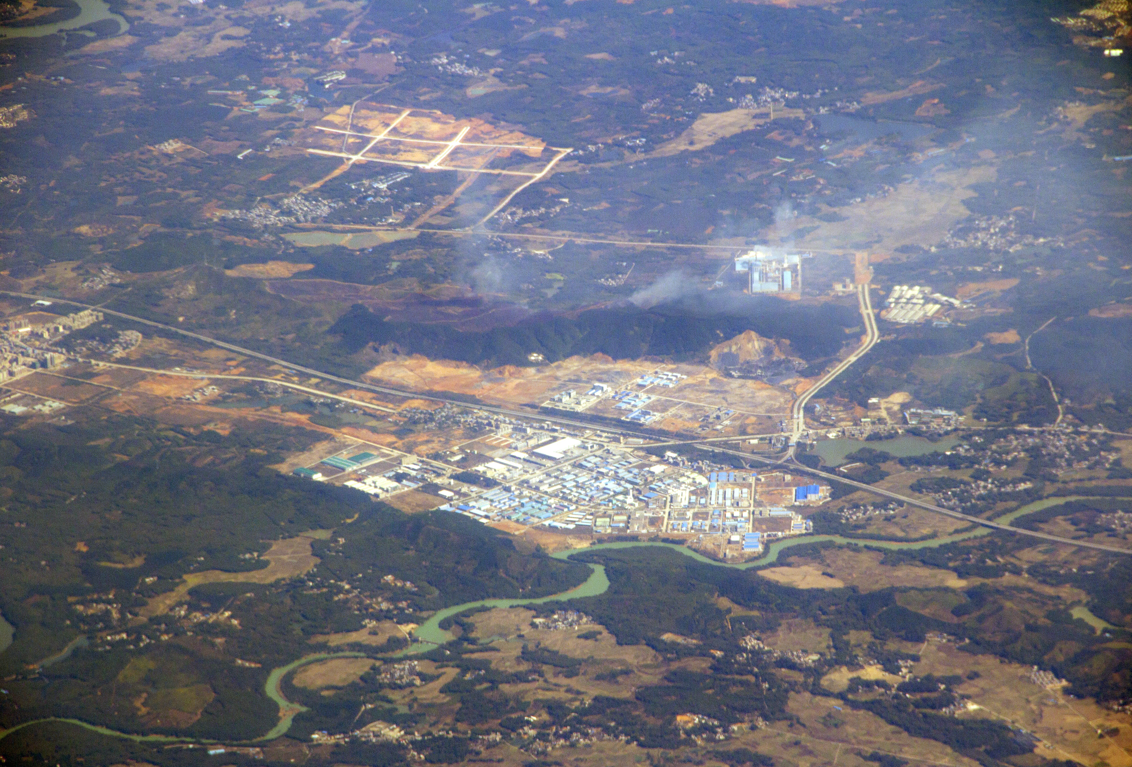 Yingde